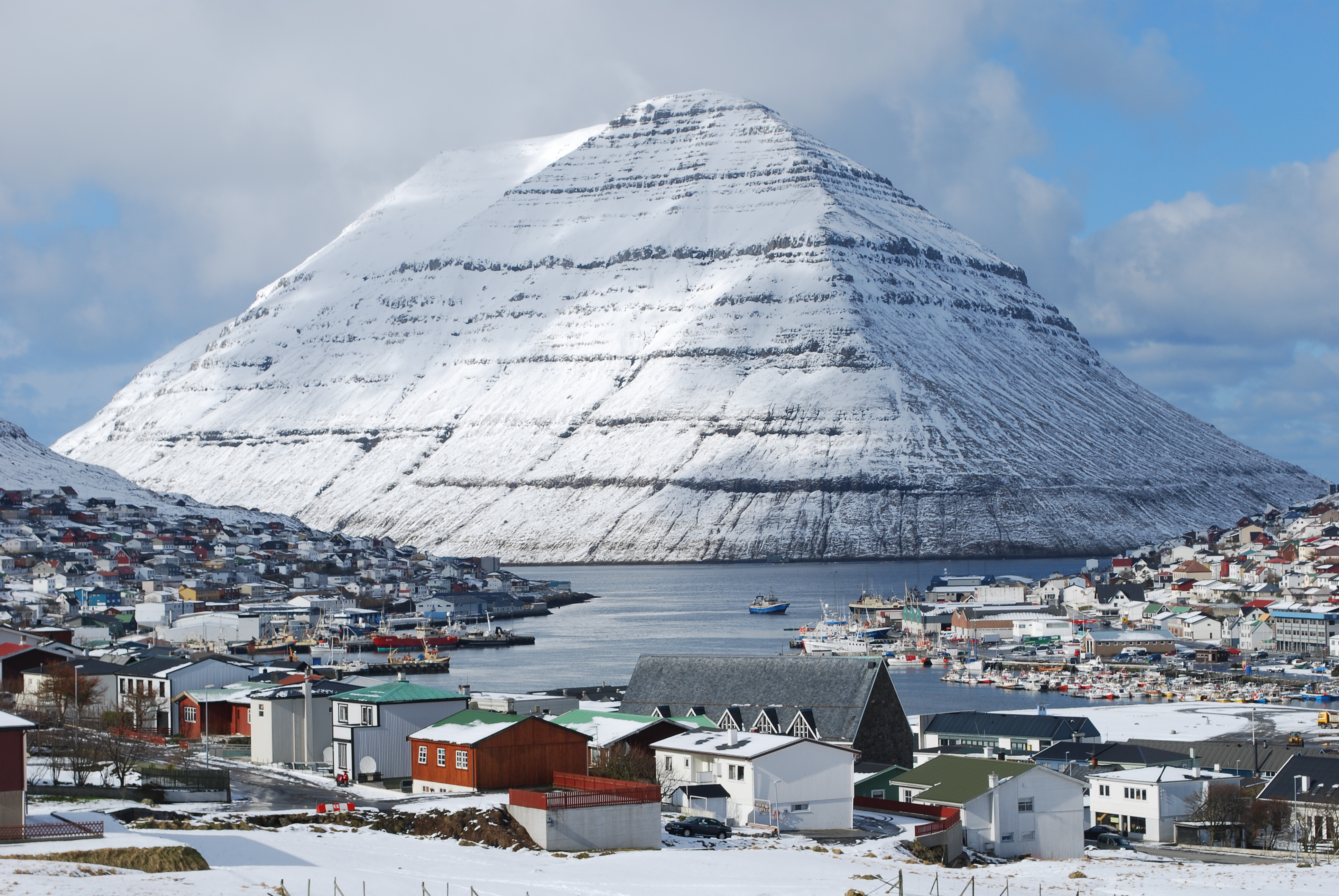 Klaksvík, Borðoy, Faroe Islands